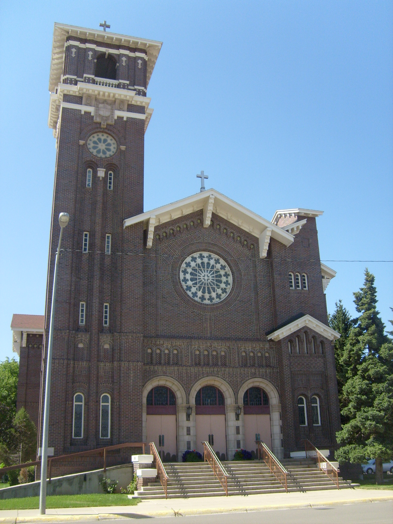 Lewistown MT St. Leos